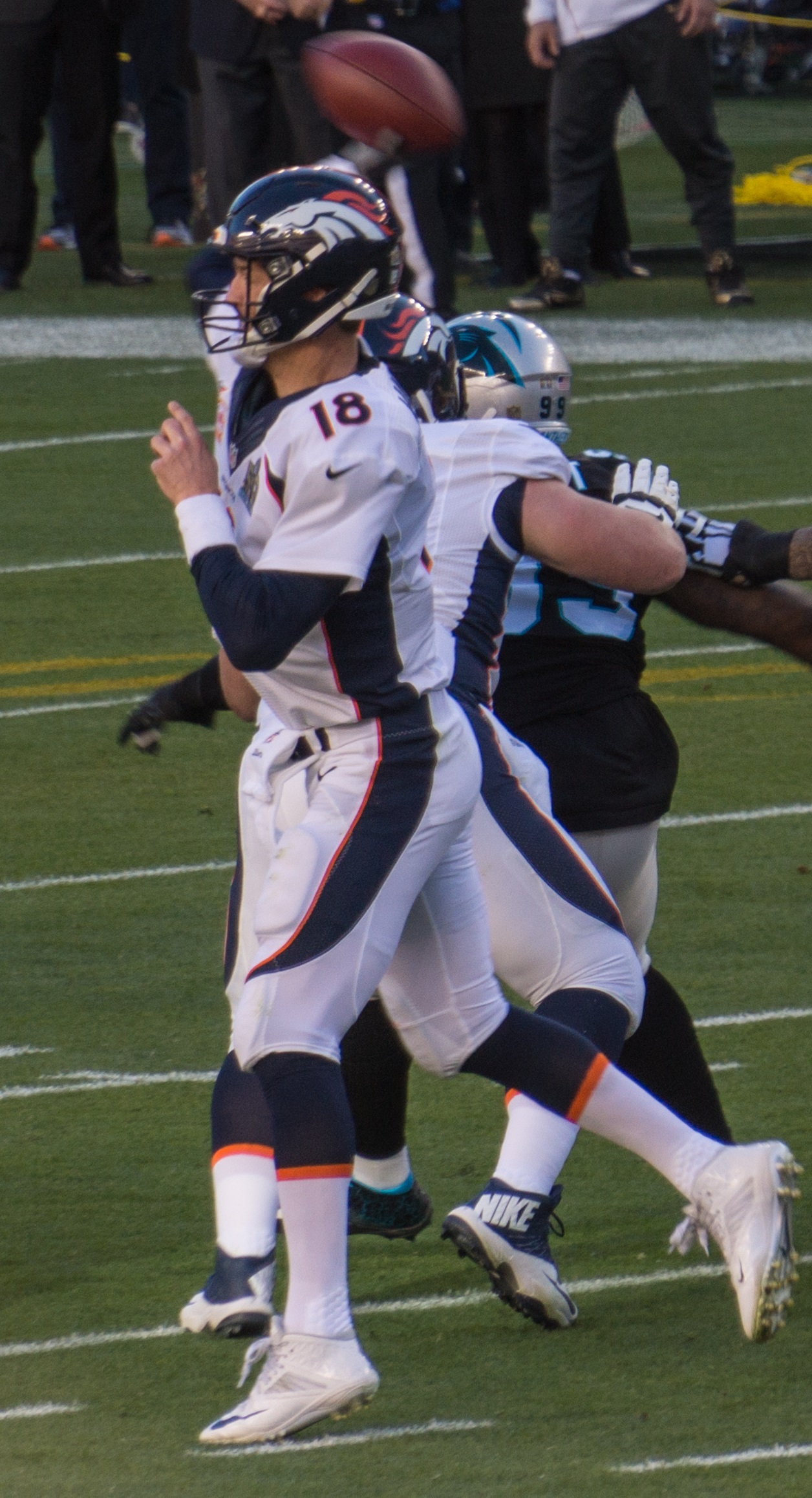 Peyton Manning passing during Super Bowl 50